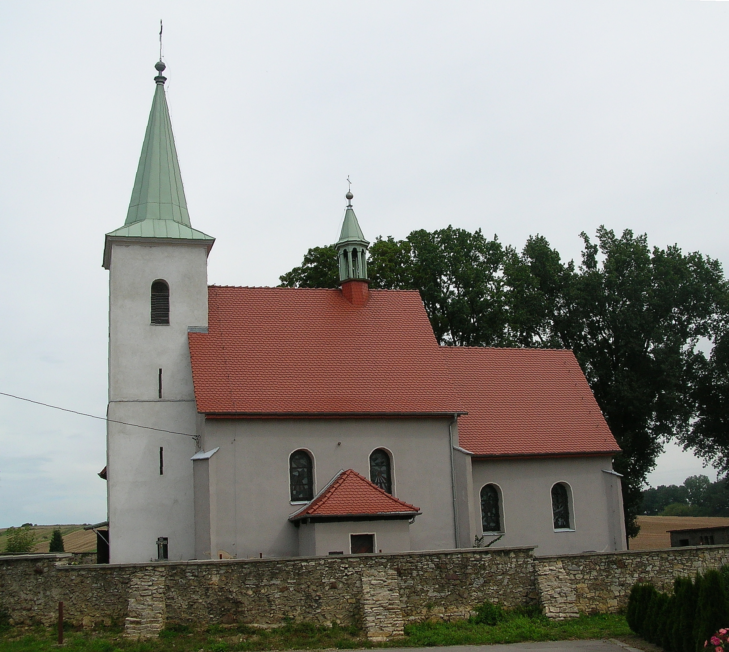 Church of the Visitation in Płużnica Wielka, Poland